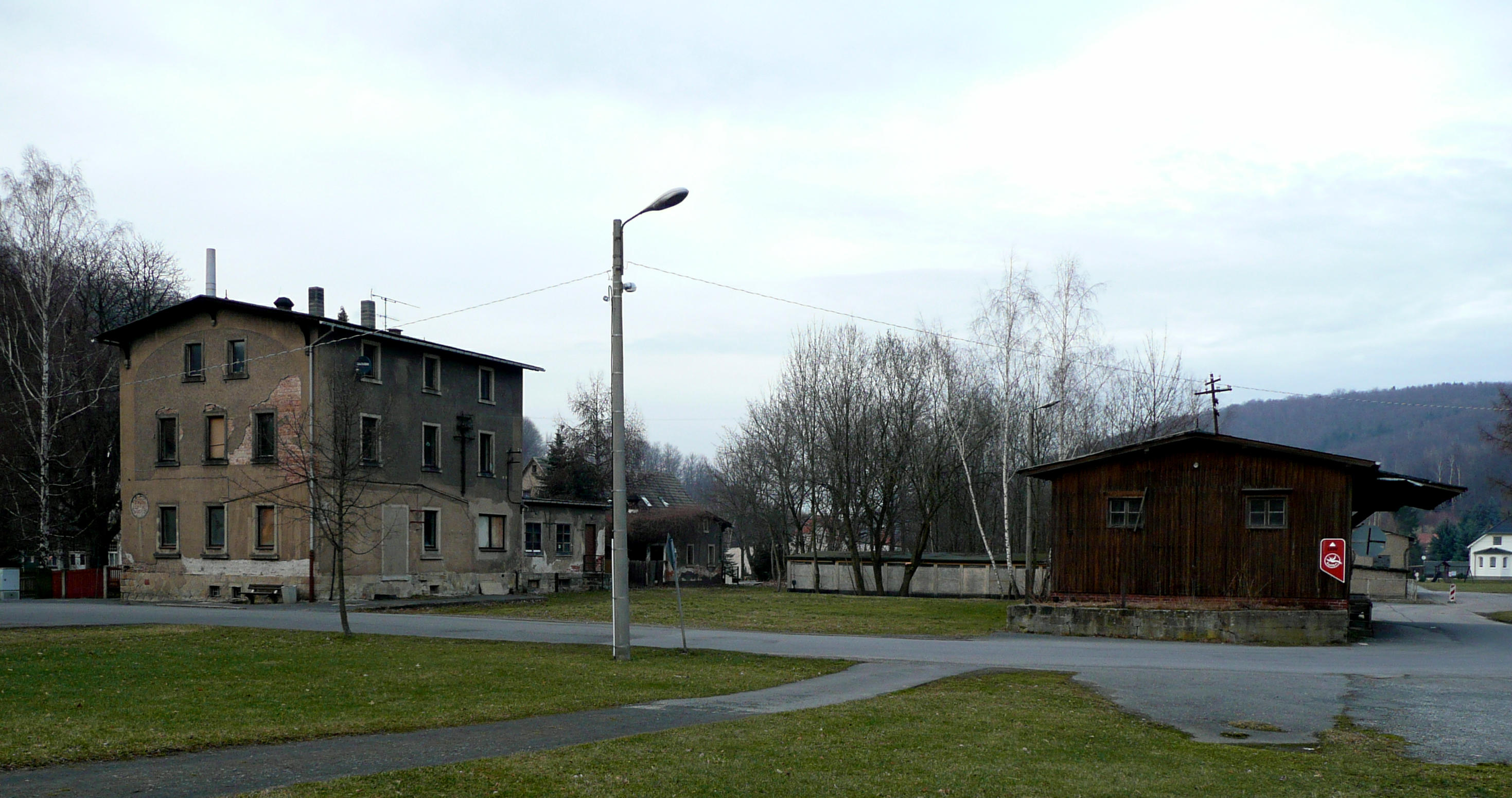 This image shows the former station in Bad Gottleuba (Saxony, Germany). The railway line from Pirna to Berggießhübel and Bad Gottleuba operated from 1880/1905 to the early 1970`s.